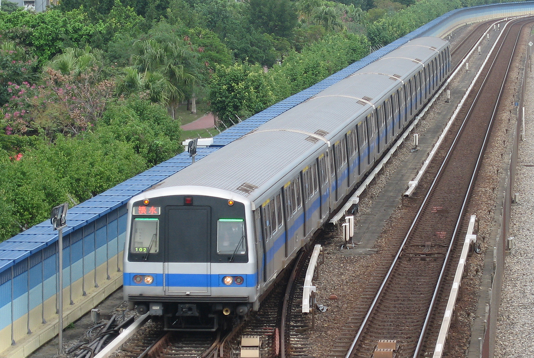 Taipei Metro EMU C371 on Tamsui Line.